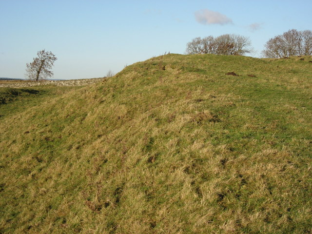 On the western ramparts of Brocilitia